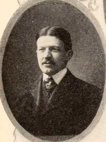 Portrait of New York assemblyman William H. Hughes